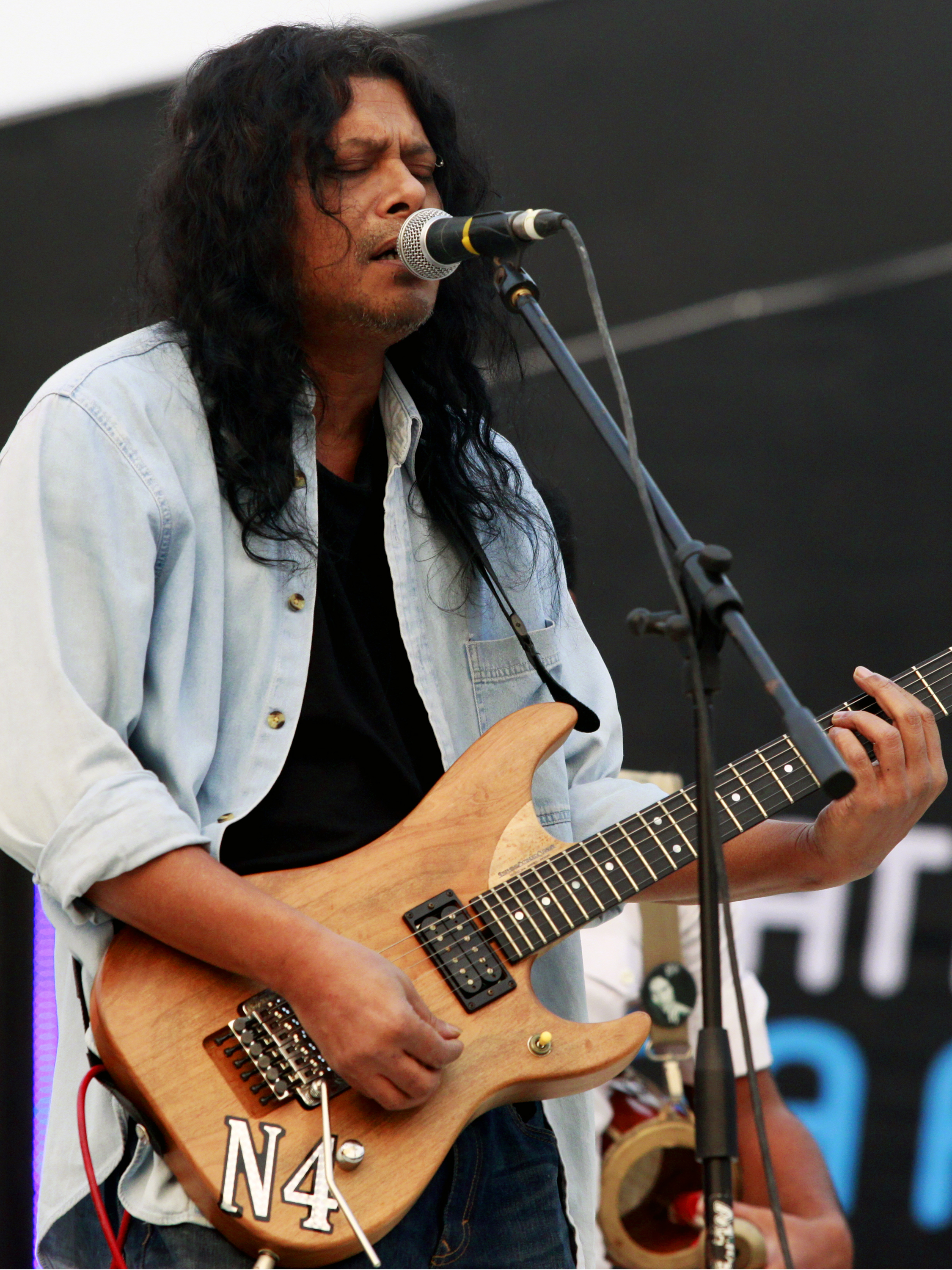 Faruq Mahfuz Anam in Tri-Nation Mega Festival: Bangladesh, India, Pakistan held in Bangladesh Army Stadium